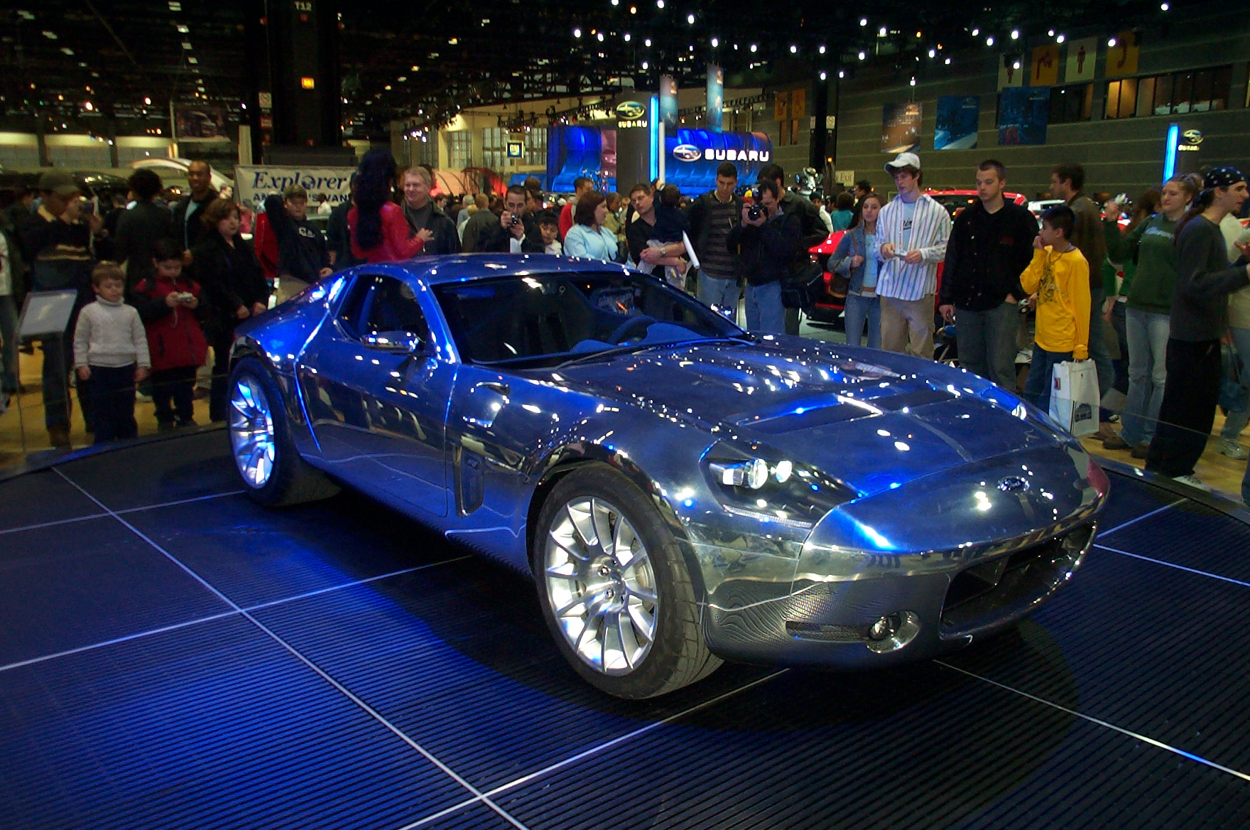 The Ford Shelby GR-1 at the 2005 Chicago Auto Show.